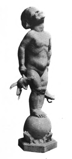 Edith Parsons "The Laughing Frog Baby by Edith Baretto Parsons which welcomed one to the fifth annual architectural exhibition in the most cheerful and amusing baby fashion." p. 11